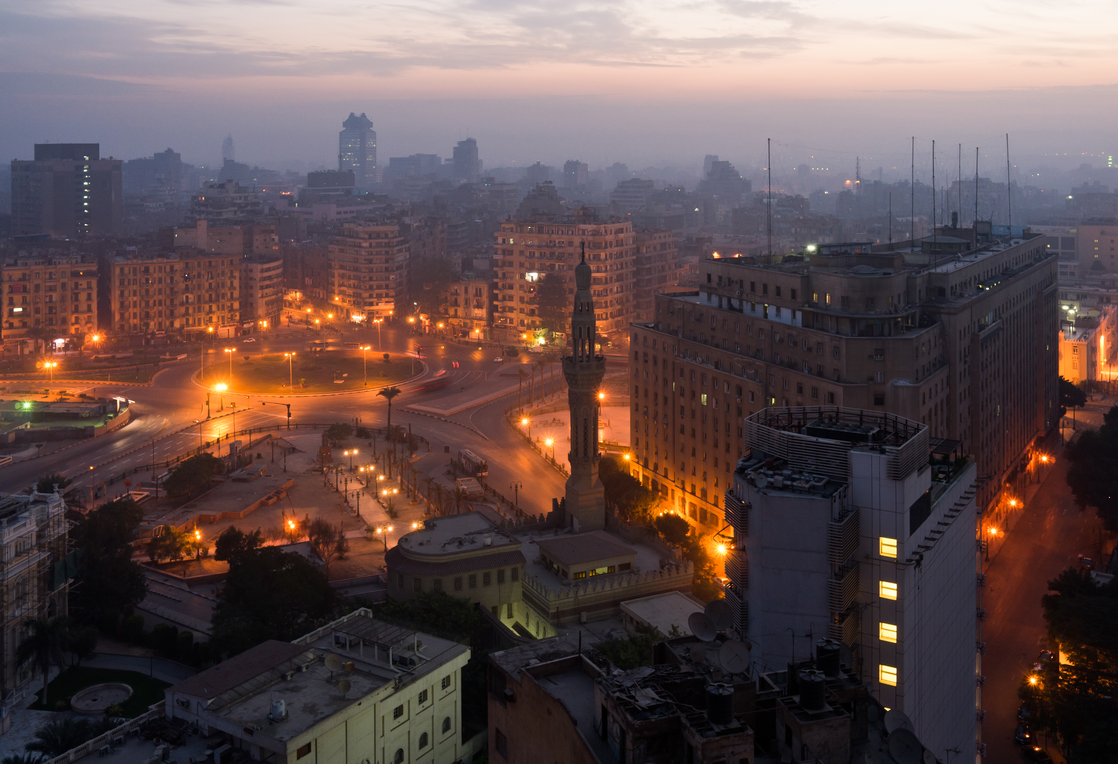 Tahrir Square (ميدان التحرير), Cairo, Egypt, in the early morning. Original upload information on Flickr: “I got up at 5 am that morning, when I noticed the sun rising behind the curtain of my hotel room window. Something in the way the sky looked attracted me. Walking towards the balcony of my room, I saw dawn painting a suble orange-reddish band on the horizon. Beneath, the street lights around Tahrir Square were glowing like lava, adding a mystic feeling to the scene.”